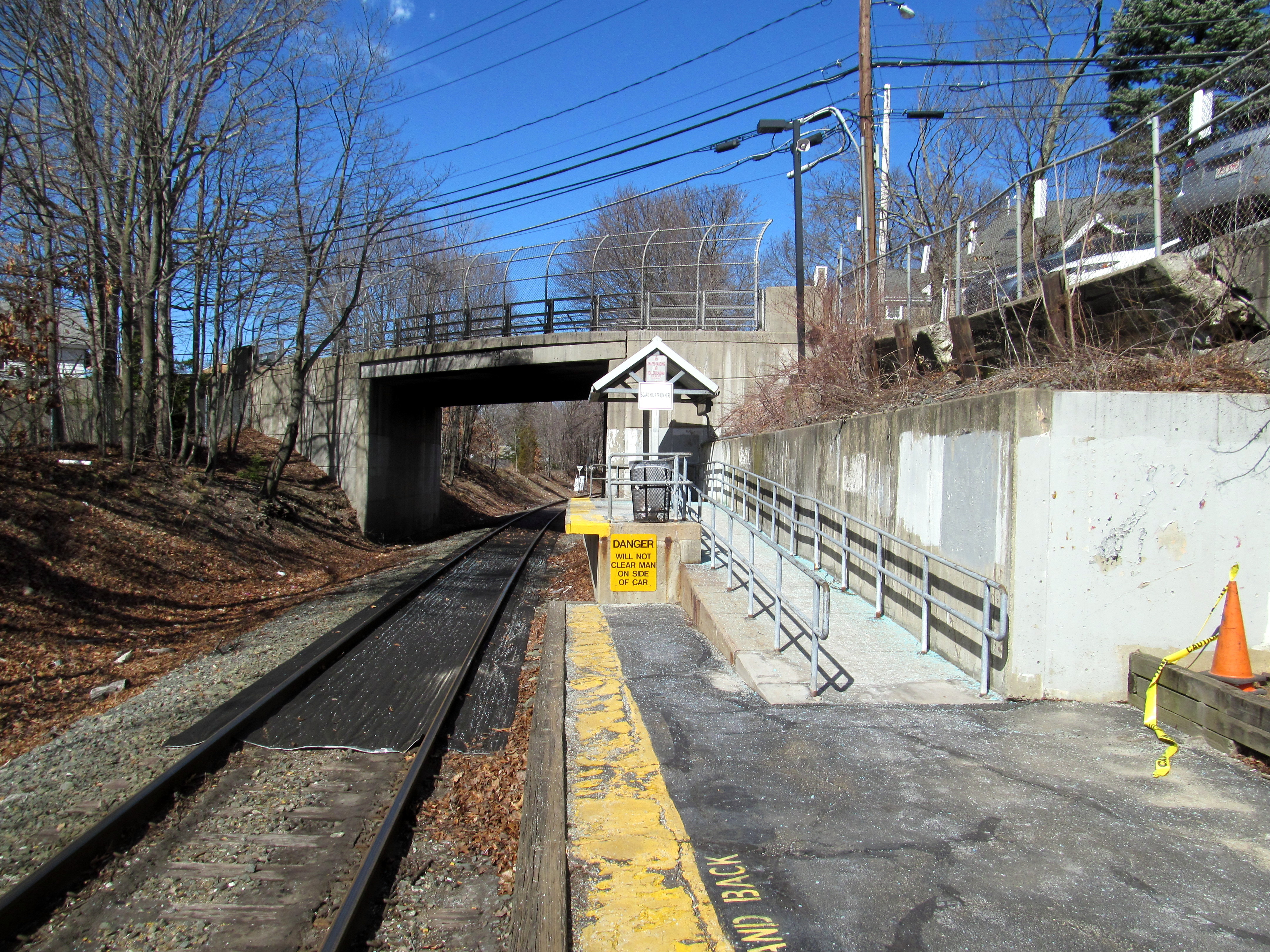 Mini-high platform at Needham Heights station in March 2016